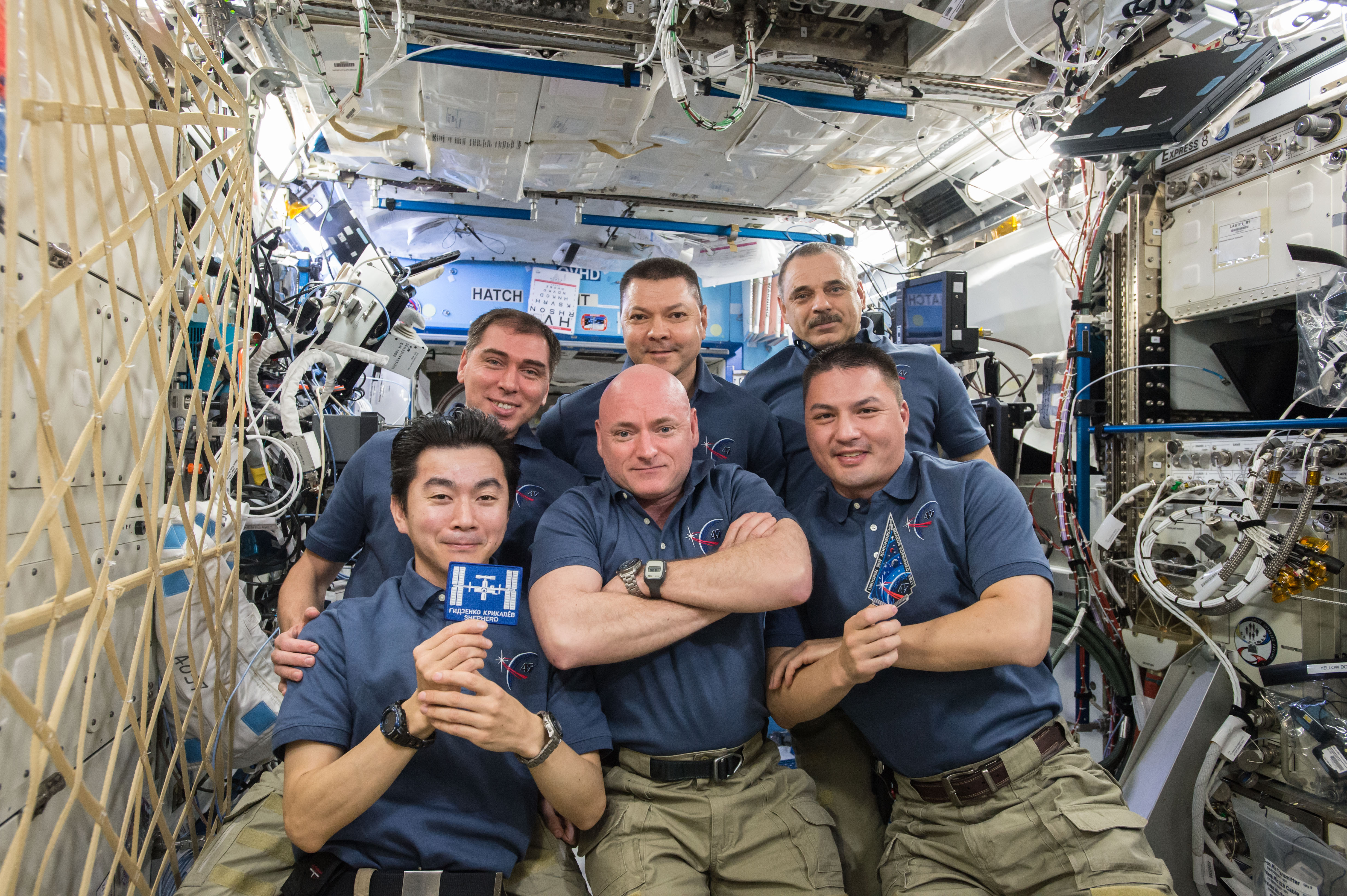 The Expedition 45 crew gathers inside the Destiny laboratory to celebrate the 15th anniversary of continuous human presence aboard the International Space Station. Front row: Japanese astronaut Kimiya Yui (left) and NASA astronauts Scott Kelly (middle) and Kjell Lindgren. Back row: Russian cosmonauts Sergey Volkov (left), Oleg Kononenko (middle) and Mikhail Kornienko (right). Yui is seen holding the mission patch for Expedition 1 which arrived at the station on Nov. 2, 2000.